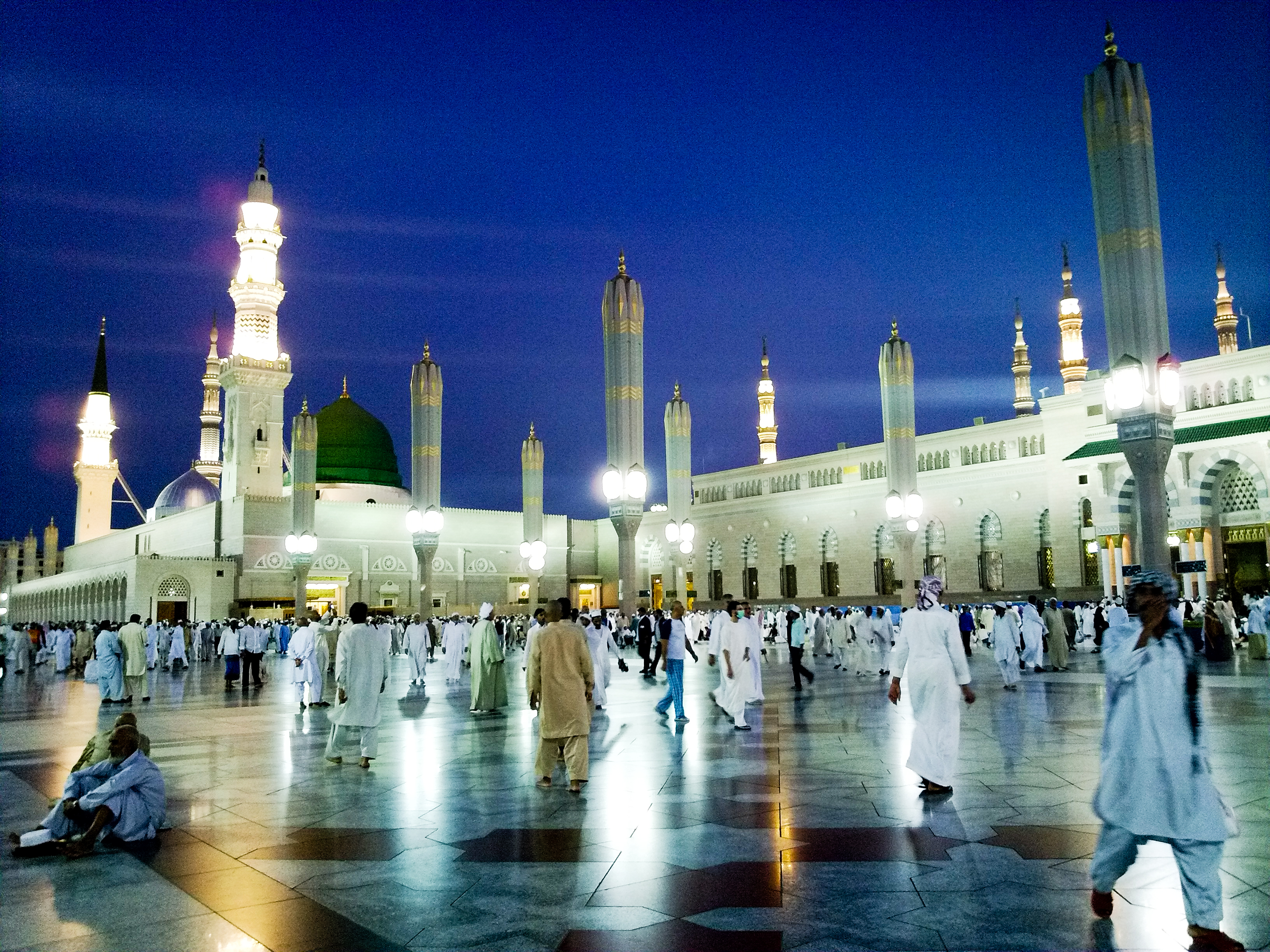 Night falls over Al-Masjid al-Nabawi (The Mosque of the Prophet) in Medina, the second holiest mosque in Islam. The city's full name is al-Madīnah al-Munawwarah, which means the "enlightened" or "radiant" city.